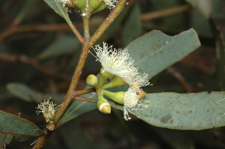 Flower buds and flowers of Eucalyptus polybractea in the Australian National Botanic Gardens